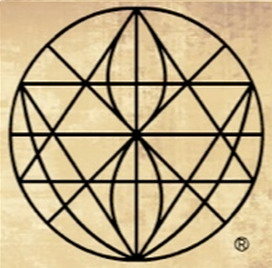 Universal Church of the Master Logo